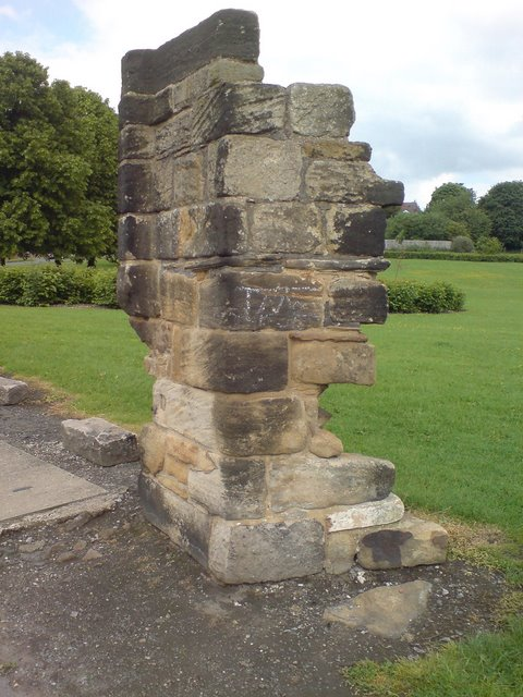 The remains of the Vesper Gate, Kirkstall These stones are the only remains of the gate and western wall of Kirkstall Abbey. The variation in the mortar between the stones suggests that it has been repaired several times in recent decades.